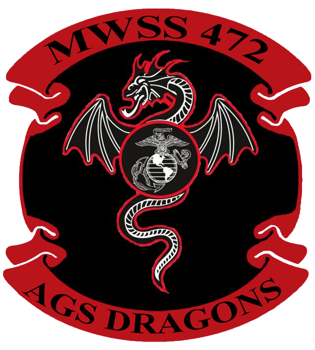 MWSS-472 Unit Insignia from 2014